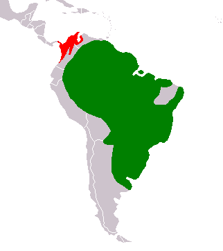 Range of the capybara (Hydrochoerus hydrochaeris) is shown in green, and that of the lesser capybara (Hydrochoerus isthmius) is shown in red (self made with Image:BlankMap-World.png).